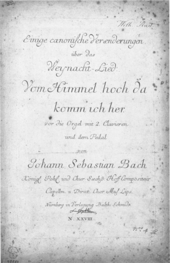 Title page of Canonic Variations, BWV 769, by J. S. Bach